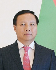 Ilham Aliyev received credentials of incoming Ambassador of Vietnam